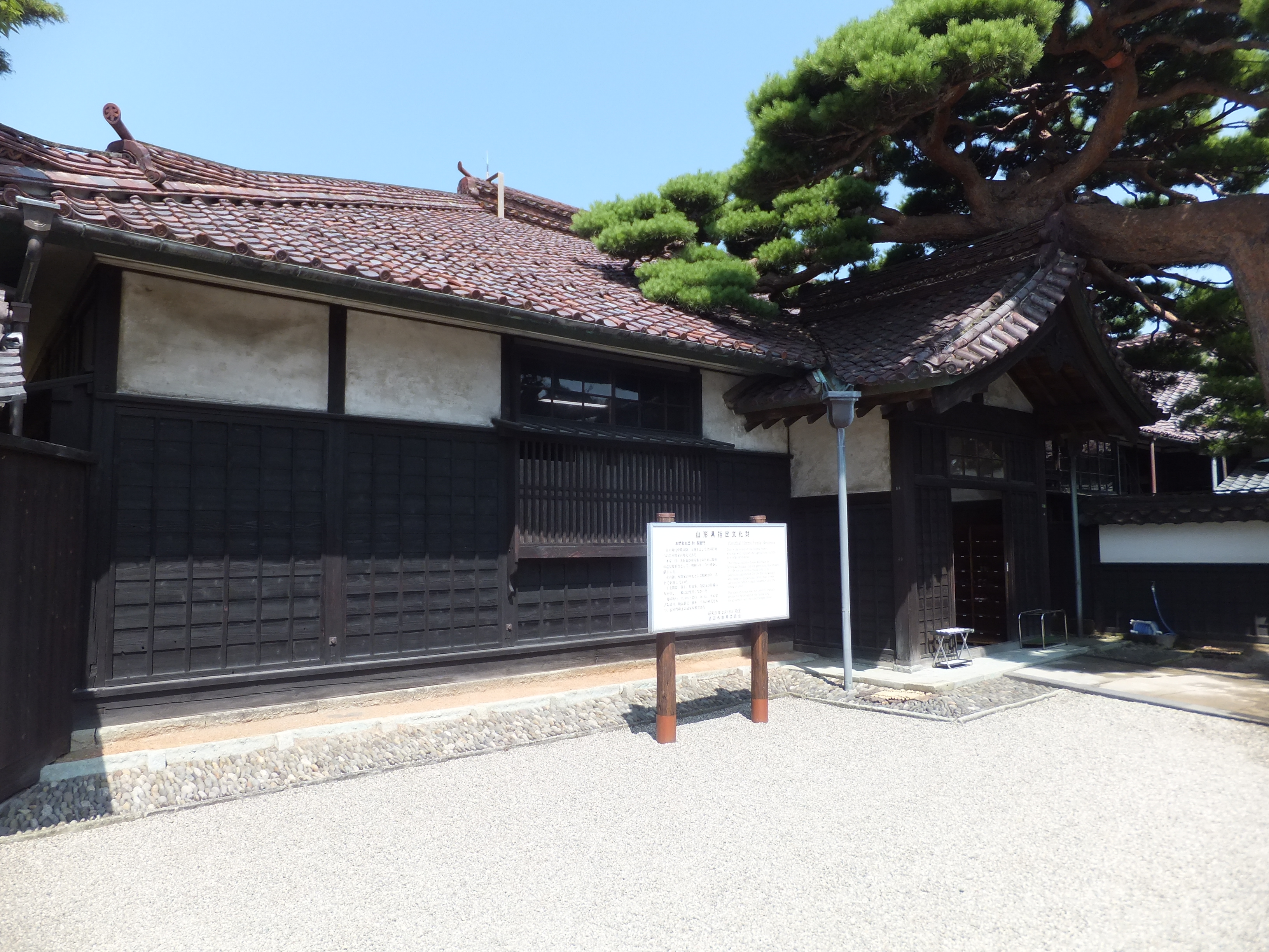 The Former Homma Residence in Sakata City, Yamagata Prefecture, Japan